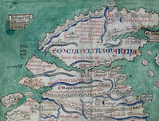 Scotland Beyond The Sea: a detail from the Matthew Paris map of Britain, c.1250 Paris was a Benedictine monk of the abbey at St. Albans. He died in 1259. The Scottish heartland (Alba) is perceived as an almost separate island reached by Stirling Bridge and situated beyond the Firth of Forth and an unidentified firth in the west. Mediaeval English chroniclers refer to the Firth of Forth as 'the Scottish Sea'. Scotland north of the Moray Firth (seemingly confused with the River Tay) is shown pointing eastwards to Scandinavia; an error copied from Ptolemy's map from the 2nd Century AD. This image is annotated on its description page at Commons.